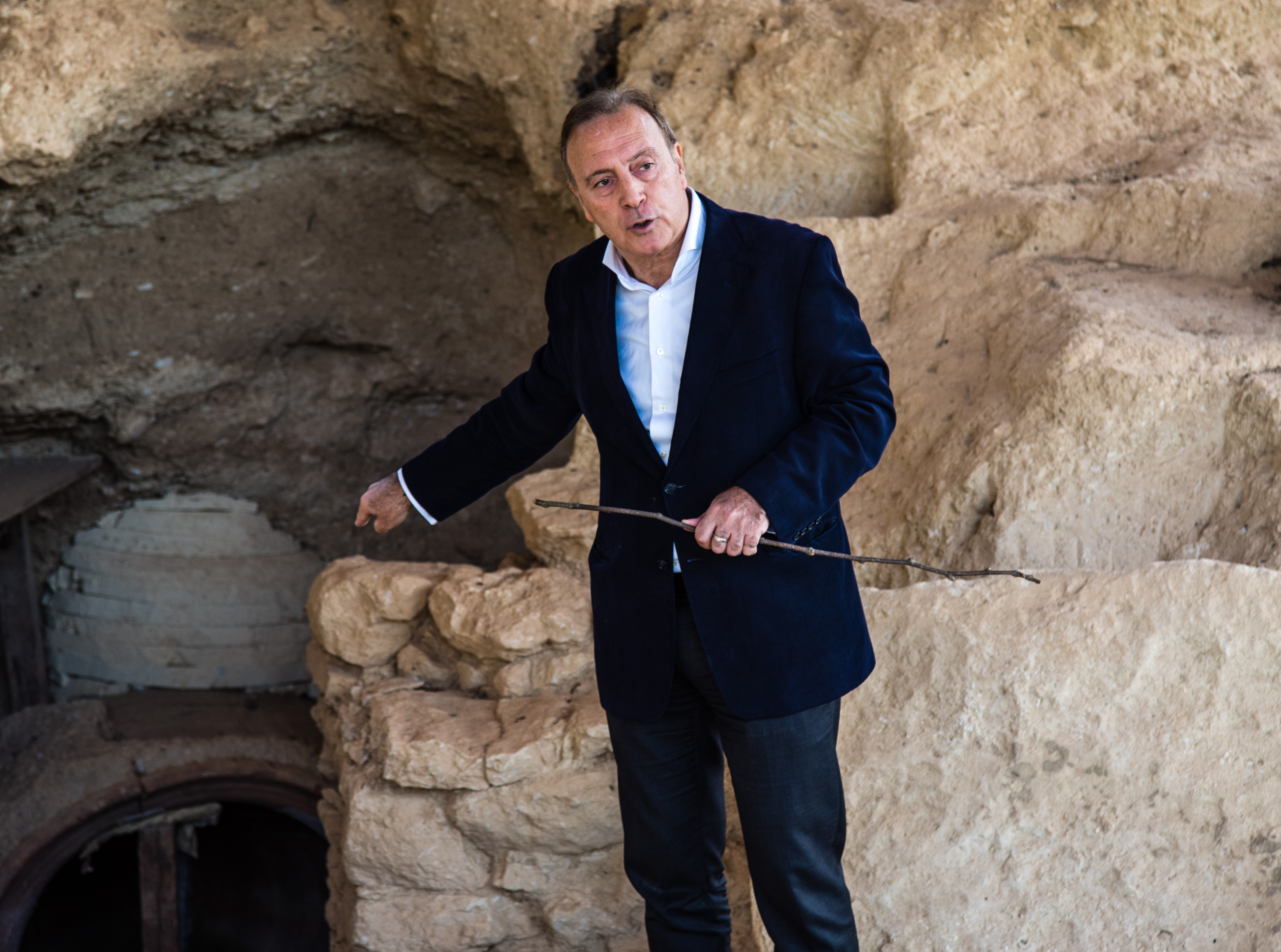 Professor Stampolidis talking about the excavation of Ancient Eleutherna